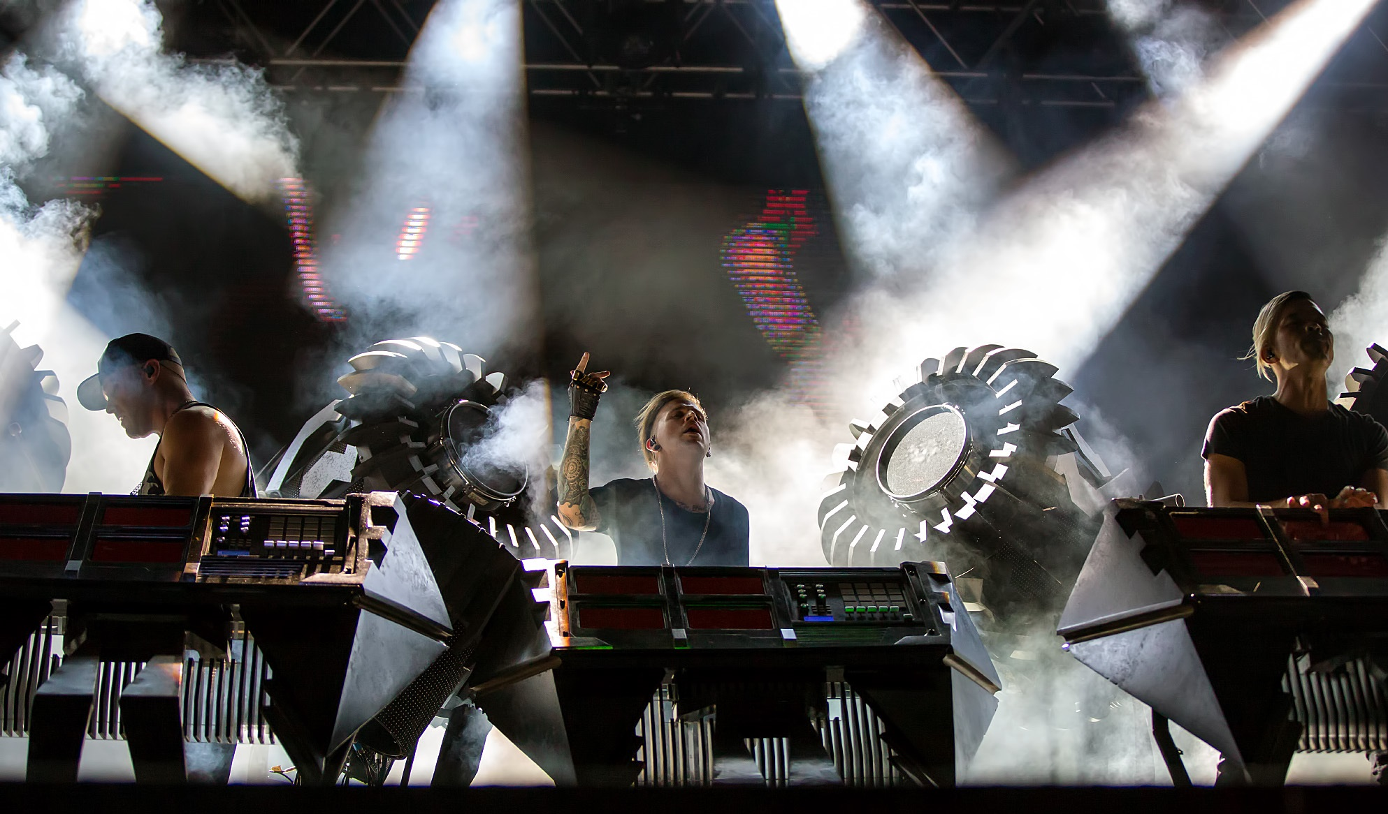 The Glitch Mob performing at the Austin City Limits Music Festival at Austin, Texas in 2014